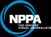 Seal of the NPPA